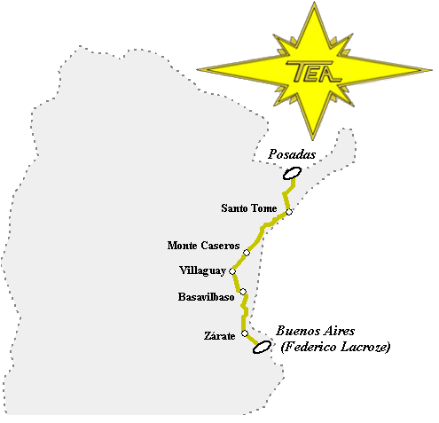 A basic map of the services provided by Trenes Especiales Argentinos (I created this file using MS Paintbrush)